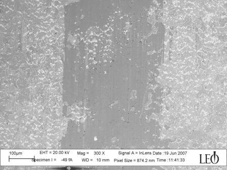 A picture of damage created on a sheet using SOFS (TNO) test equipment. which illustrates . The image shows the characteristic flat and even pattern of the galling phenomenon, where the surface is sheared and flattened. The oxide surface is not totally broken thorough because of uneven flattening damage, where unaffected oxides are still present in the formed track. The pattern is consequently interpreted as a sign of mild adhesive material transfer with flattening damage.